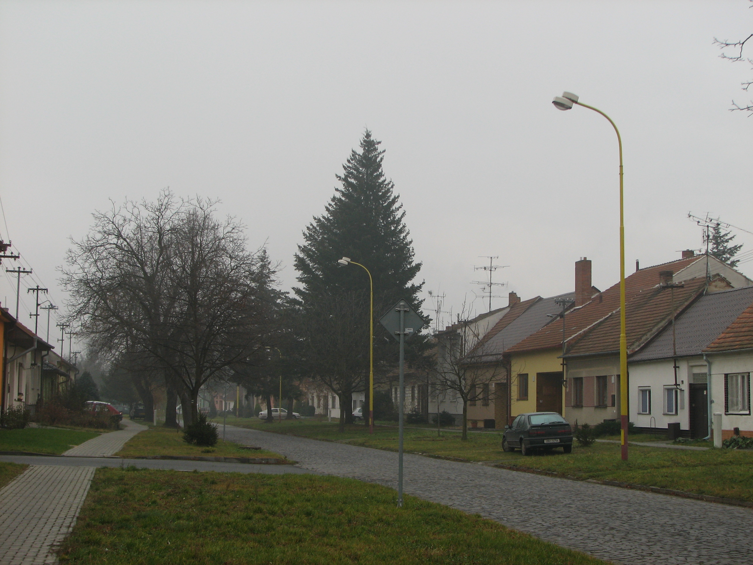 A street in Mikulčice, Hodonín District